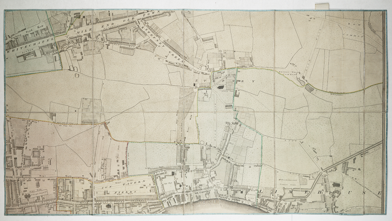 Sheet 4 (Mile End, Stepney, Shadwell, Limehouse) from the east half of the: 'Plan of the cities of London and Westminster, the borough of Southwark and parts adjoining shewing every house'Edition: 1st edn. Single sheet. Hand col. engr. Medium: Two original sheets have been mounted together, segmented and backed. Scale: 1:2 437 (26 inches to the mile). Additional Places: Mile End, Stepney, Shadwell, Limehouse. Contents Note: There is a key to the different types of buildings and a note on house numbering on sheet E8. Gren Hwd E4 Sheet 4 from the east half of the: Plan of the cities of London and Westminster, the borough of Southwark and parts adjoining shewing every house